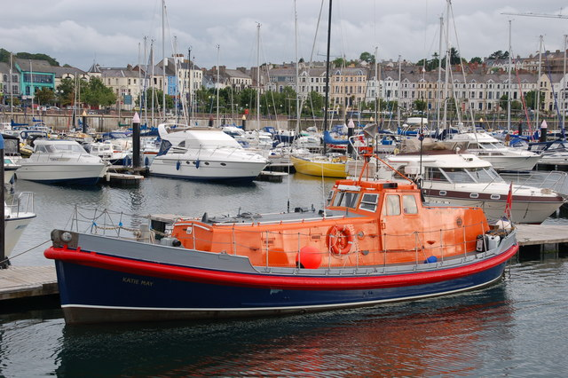 Old lifeboats never die. When lifeboats reach the end of their service with the RNLI they are sold sometimes to other rescue organisations (usually abroad) or to individuals. This one, visiting Bangor marina, was built in 1959 as the “Kathleen Mary” and was the station boat at Newhaven, Porthdinllaen and Appledore as well as spending a spell in the relief fleet. It is now in private ownership as the “Katie May”.